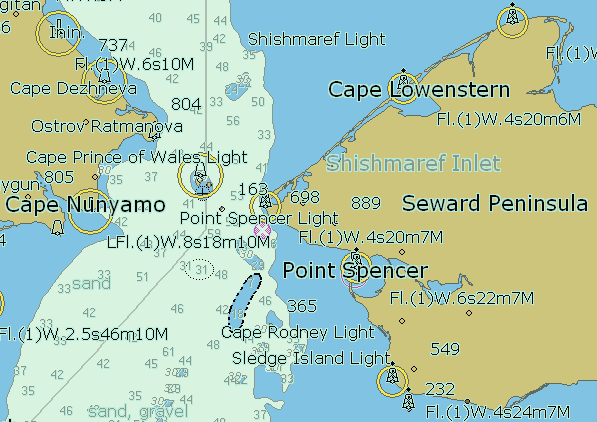 Summary. Nautical map of Bering strait. This image was produced from ENC S-57 data supplied by the US NOAA Office of Coast Survey, chart US1BS03M, and is free from copyright. It is a pretty picture; it is not for navigation. Free software called SeeMyEnc from SevenCs generated the depiction of the data.